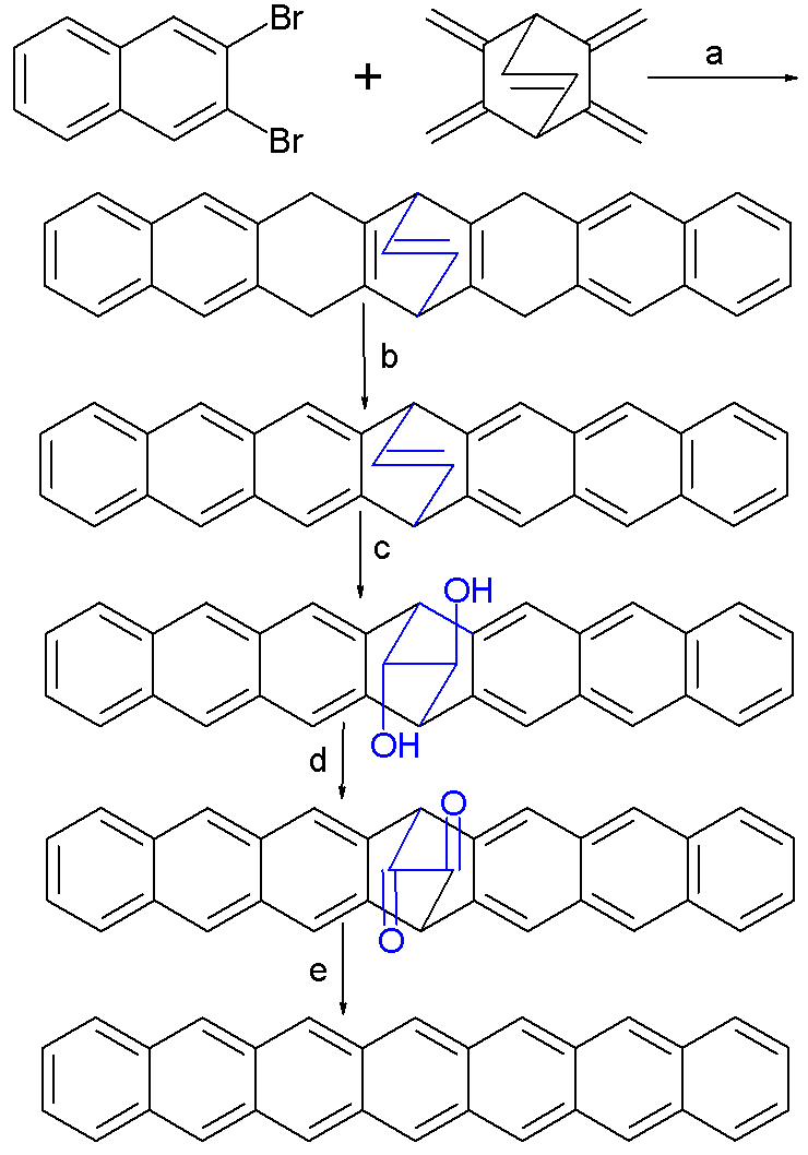 Heptacene synthesis